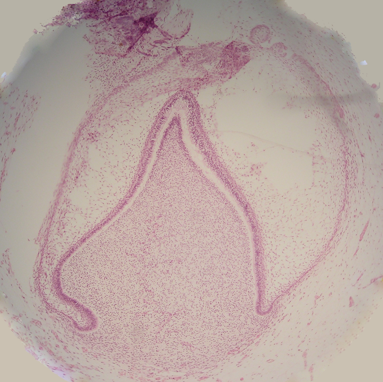 Histology of developing tooth with no labels. Tooth bud is in late bell stage. Photo taken by Dozenist.